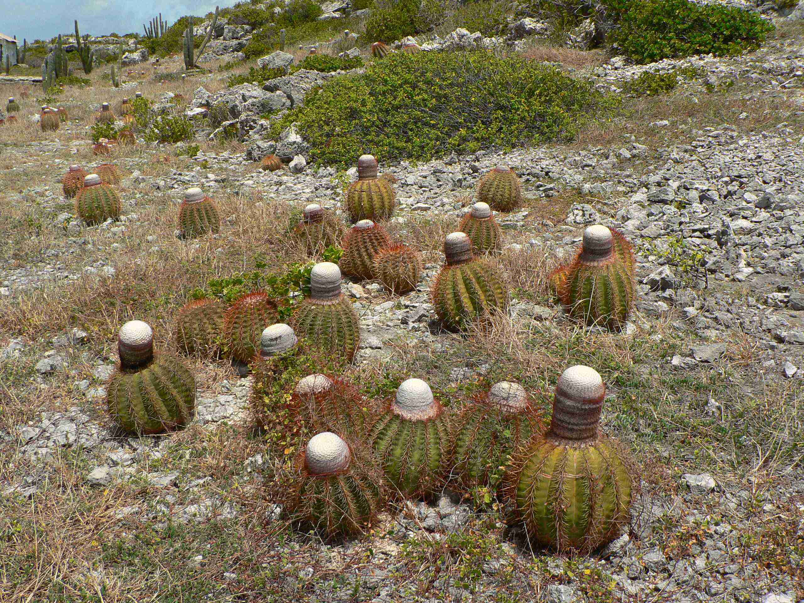 Melocactus macracanthos subsp. macracanthos. Cactus growing near Baby Beach in southeast Aruba.